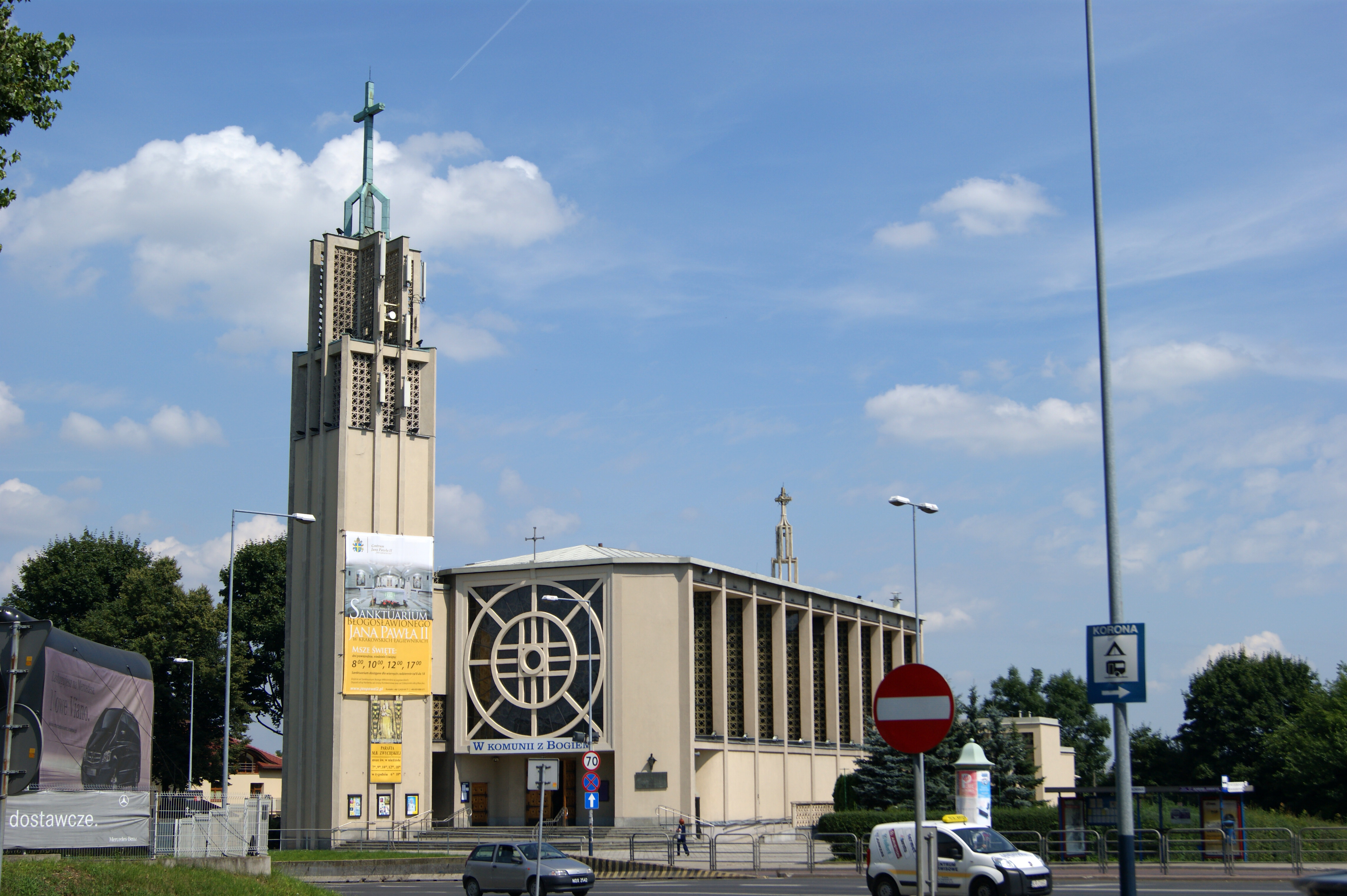 Church of Our Lady of Victories, 86 Zakopianska street, Krakow, Poland